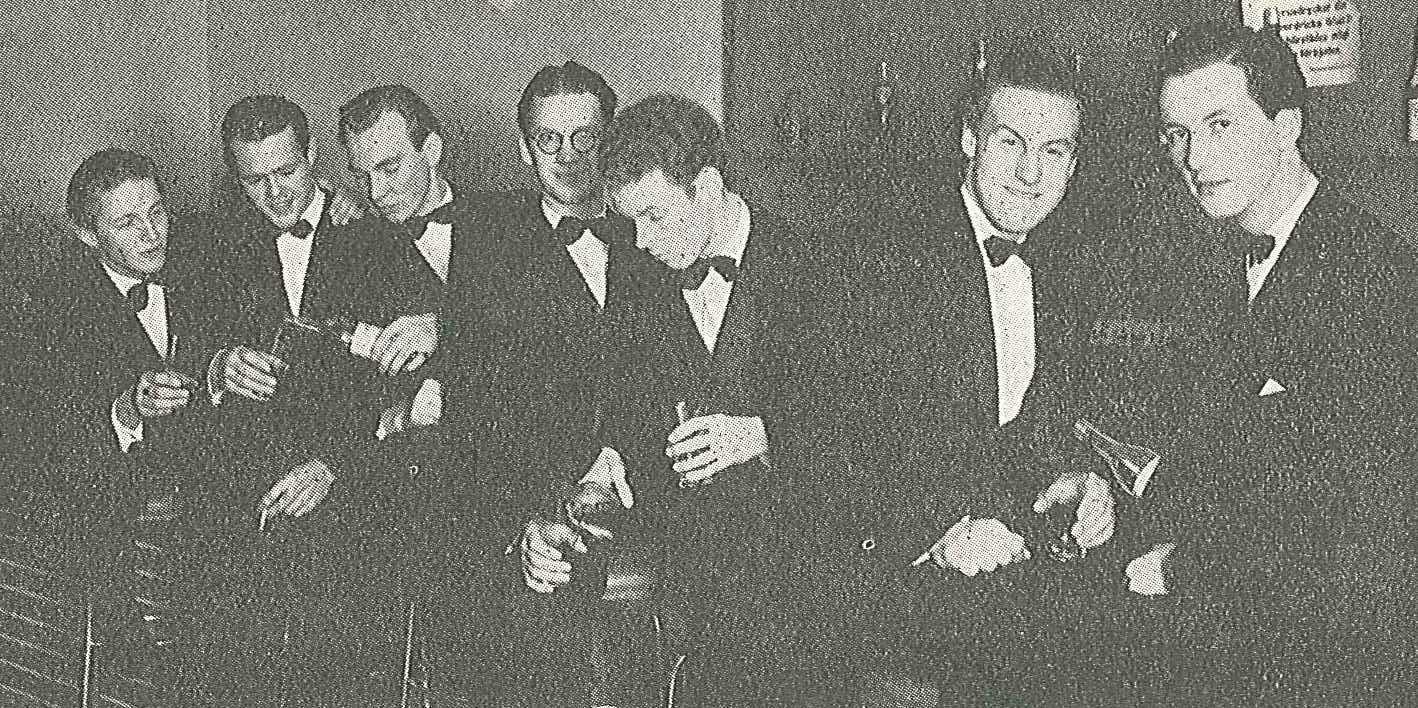 The band at the Wivex ballroom in Sundsvall, autumn of 1942. From left: Tage Hansson, Göte Eriksson, Åke Nilsson, Arvid Sundin, Stig "Lalle" Johansson, Ernst Henning and Arne Domnérus (leader of the band).